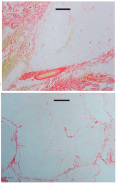 Picrosirius red staining of abdominal subcutaneous adipose tissue from subject 1 (upper image) and a representative comparative image of a BMI-matched subject (lower image). Scale bars, 500 μm. Adipose tissue from subject 1 with a POLD1 mutation shows a considerable amount of fibrosis (red staining).